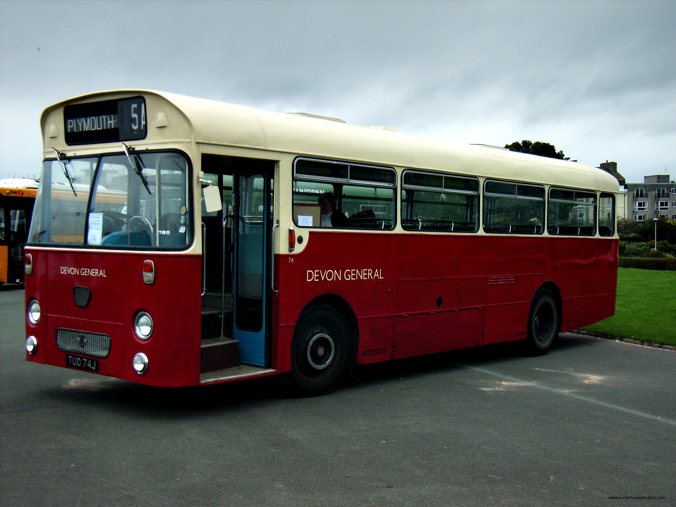 26 July 2009 Plymouth WNPG Rally